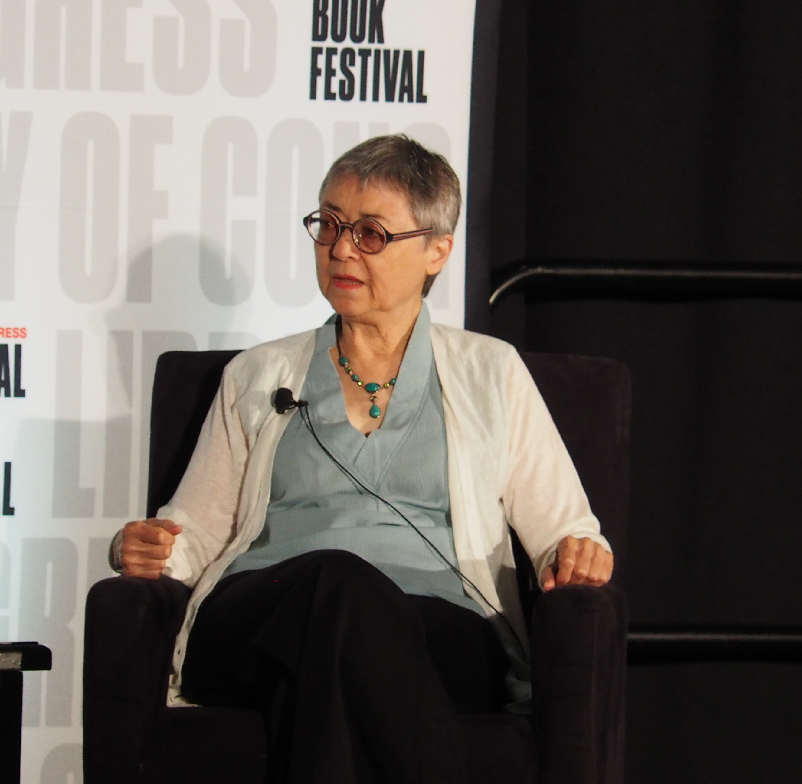 Sigrid Nunez